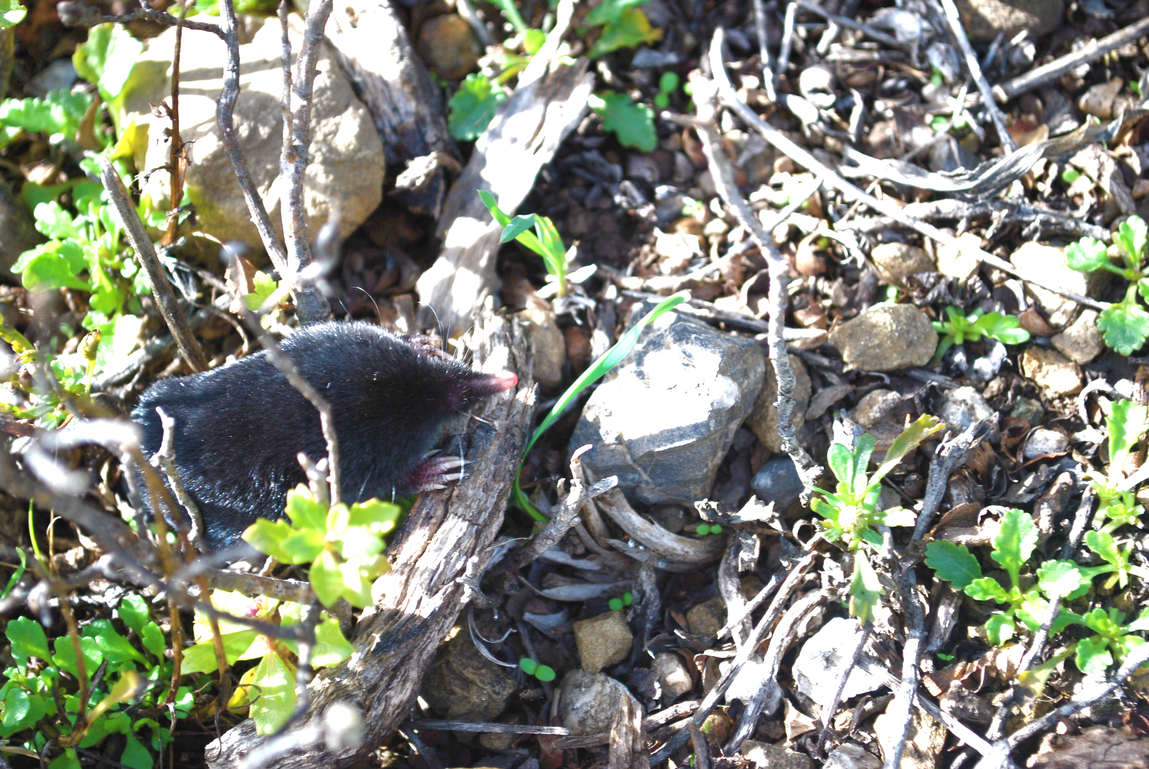 Broad-footed Mole, image taken in Portalo Highlands, California, United States